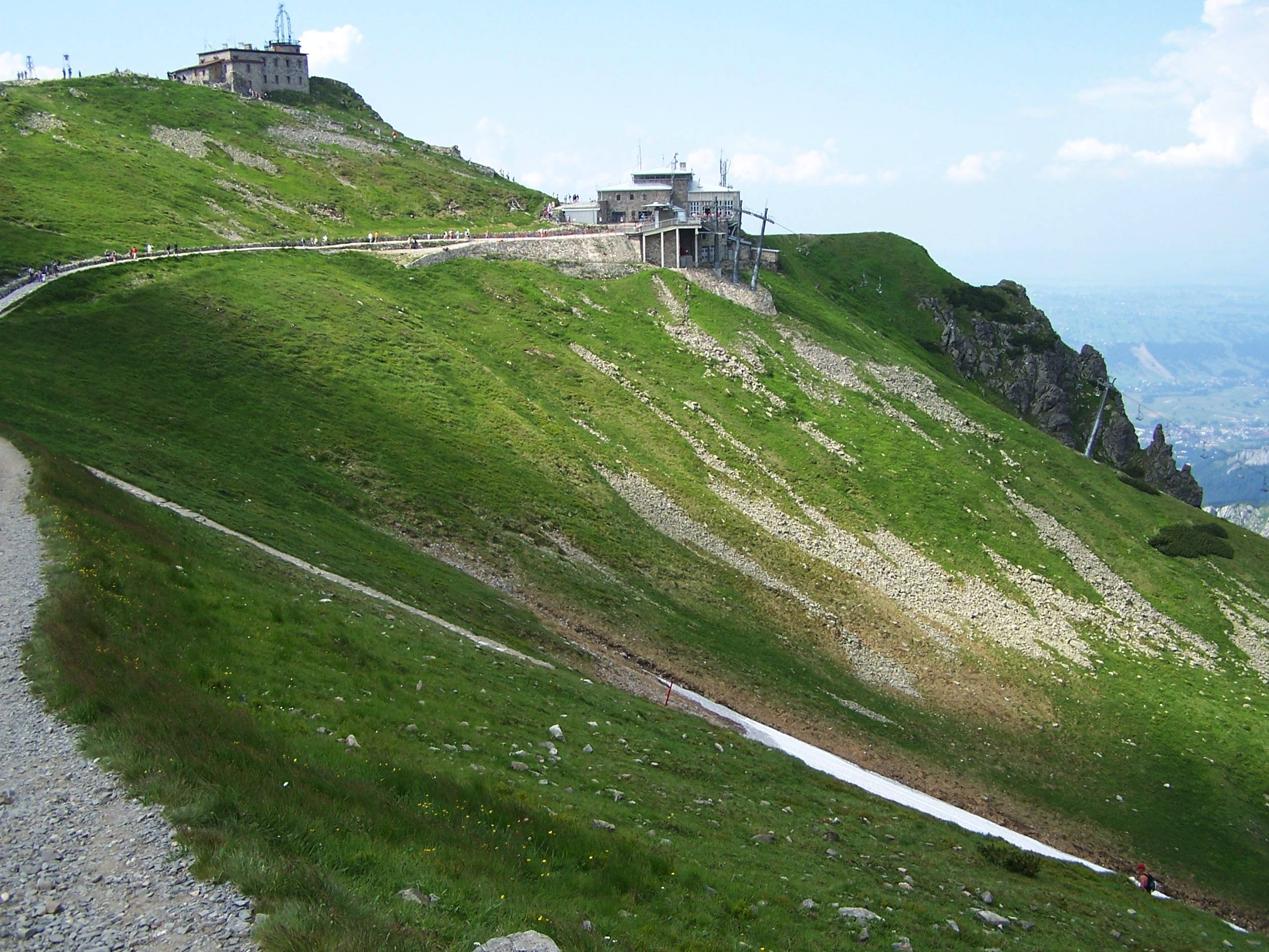 Kasprowy Wierch (Tatra Mountains)